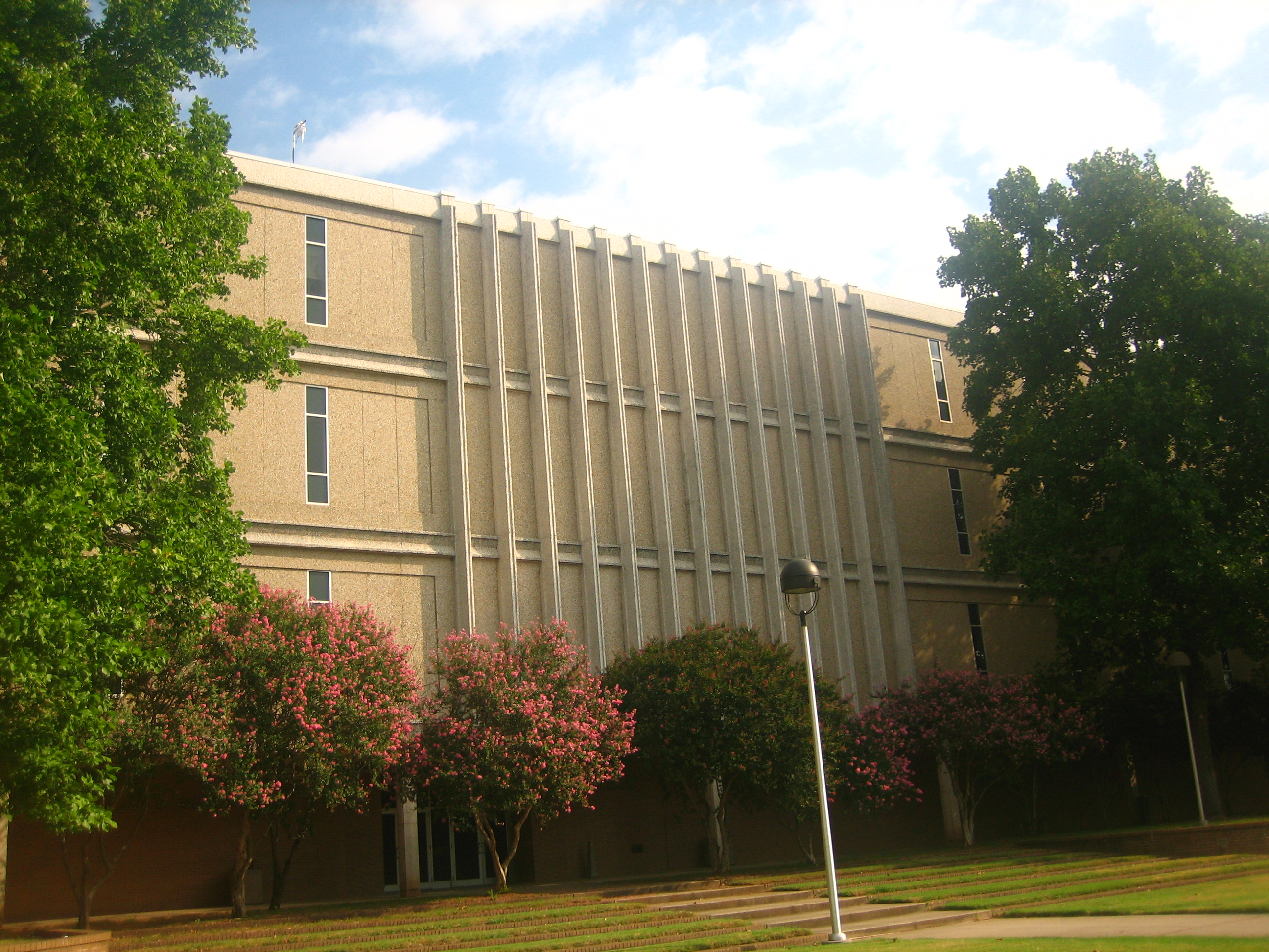 I took photo on Aug. 9, 2008.Billy Hathorn (talk) 00:02, 23 August 2008 (UTC)